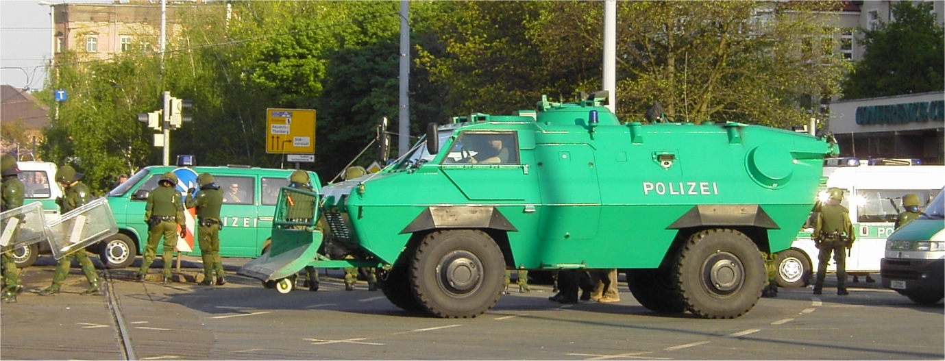 German police tank